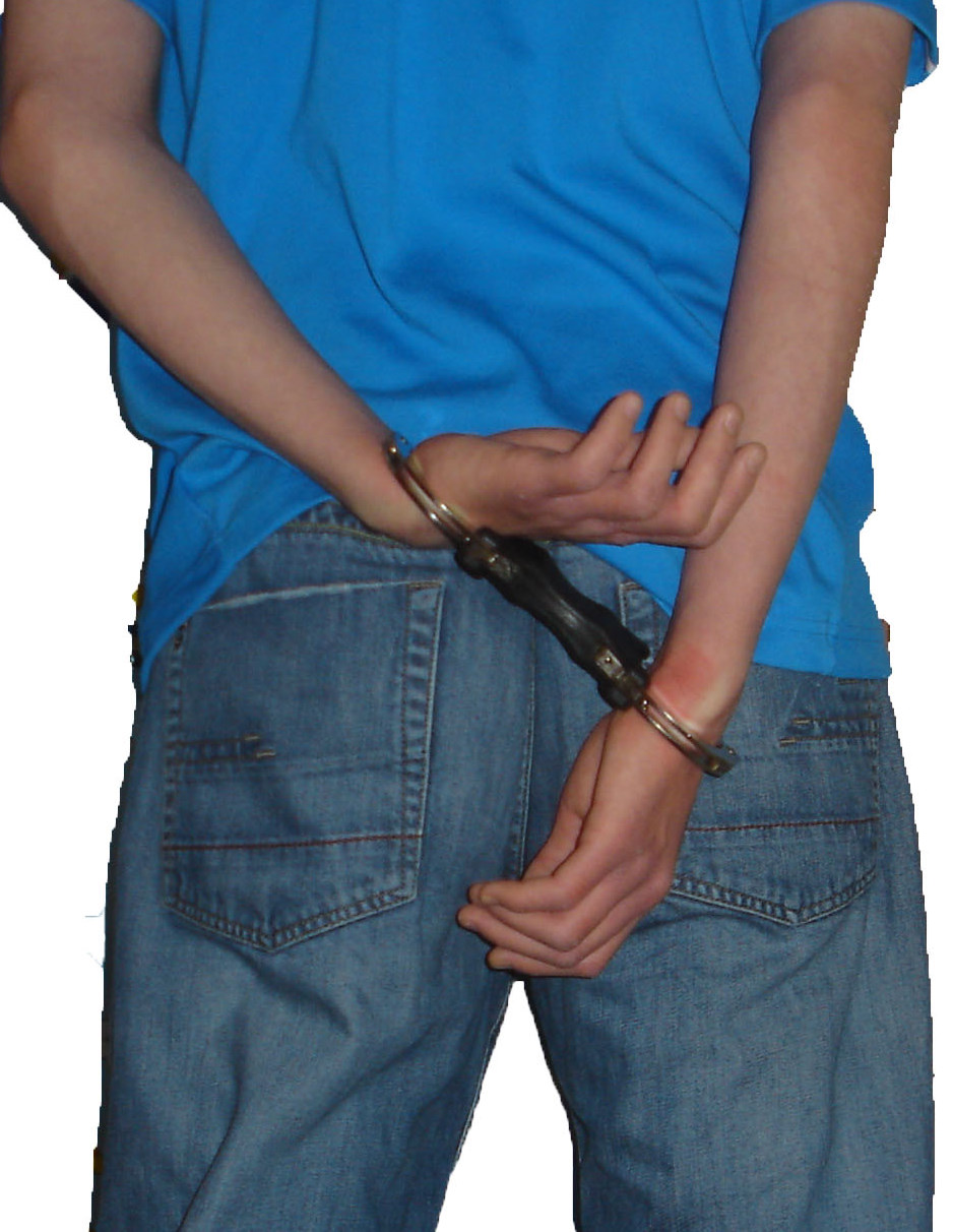 Speedcuffs handcuffs applied behind the back in the stack position